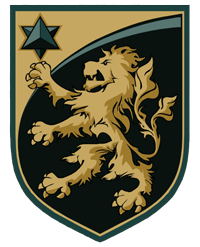 Coat arm of KSF